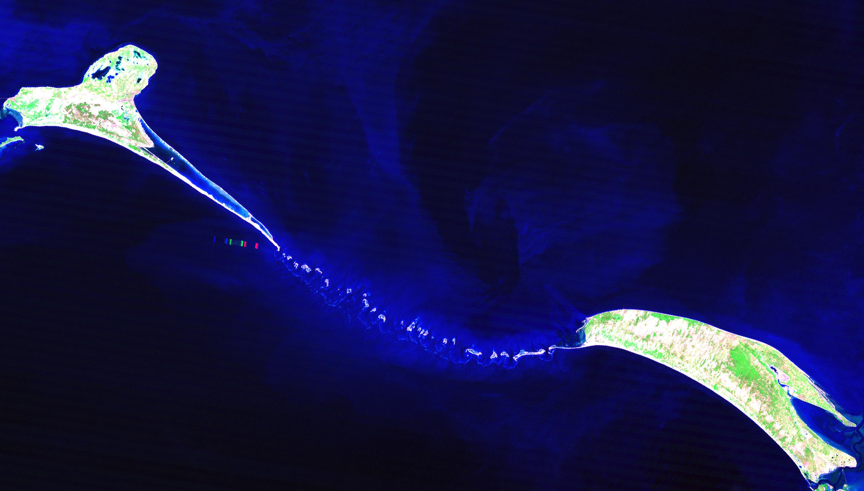 Rama's Bridge. A subset of Landsat 5 TM true color composite of Rama's bridge or Ram Setu (referred by British cartographers as Adam's Bridge). Path 142 Row 54; Bands 742 (RGB); Resolution 30 meter. Original image acquired on 6 February, 1988 at 4:42:00 GMT.